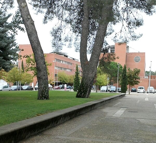 ETSEA Campus, buildings 2 (left) and 3 (right).